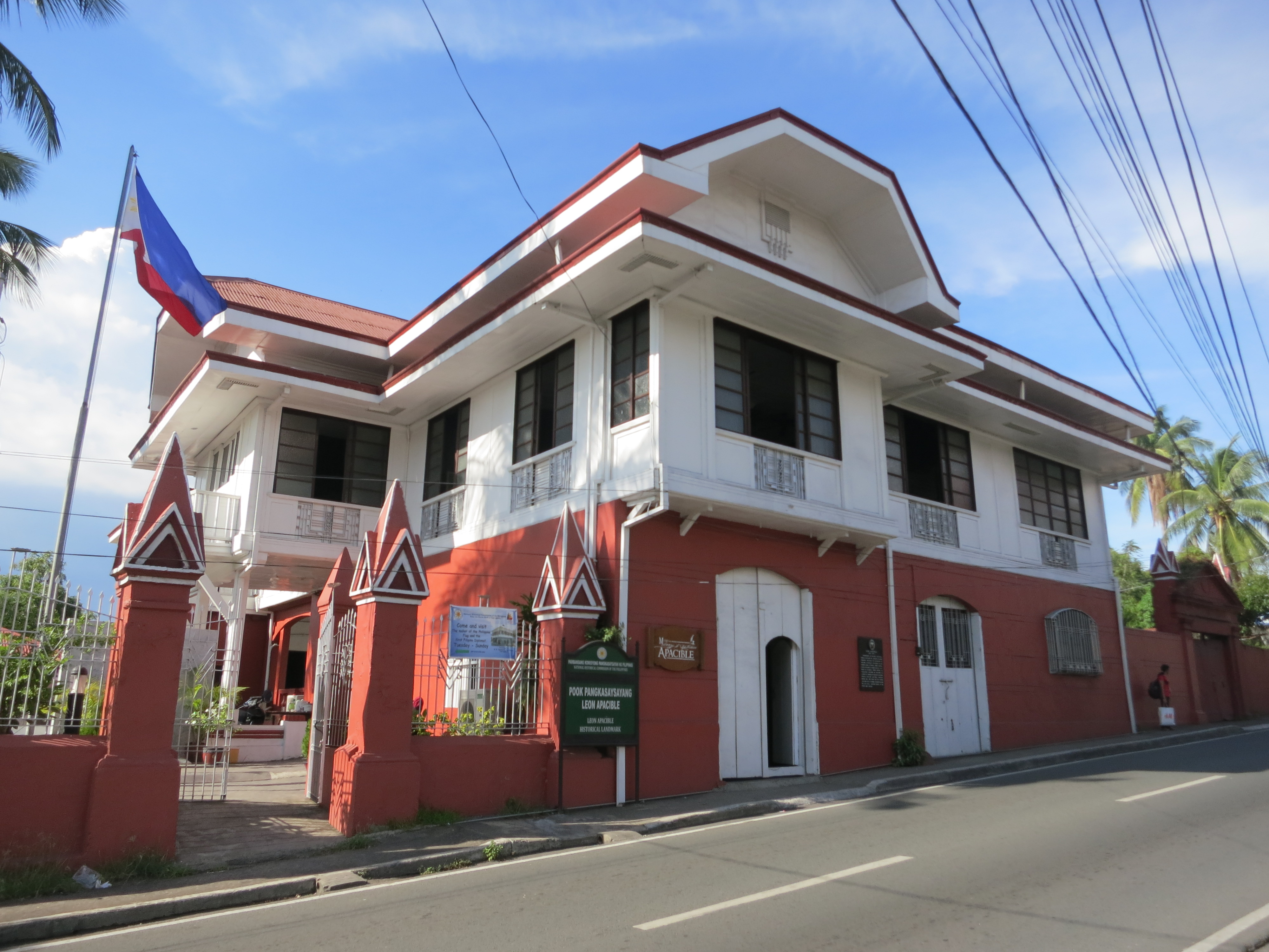 Facade of the Leon Apacible Museum looking from the southwest across the street.